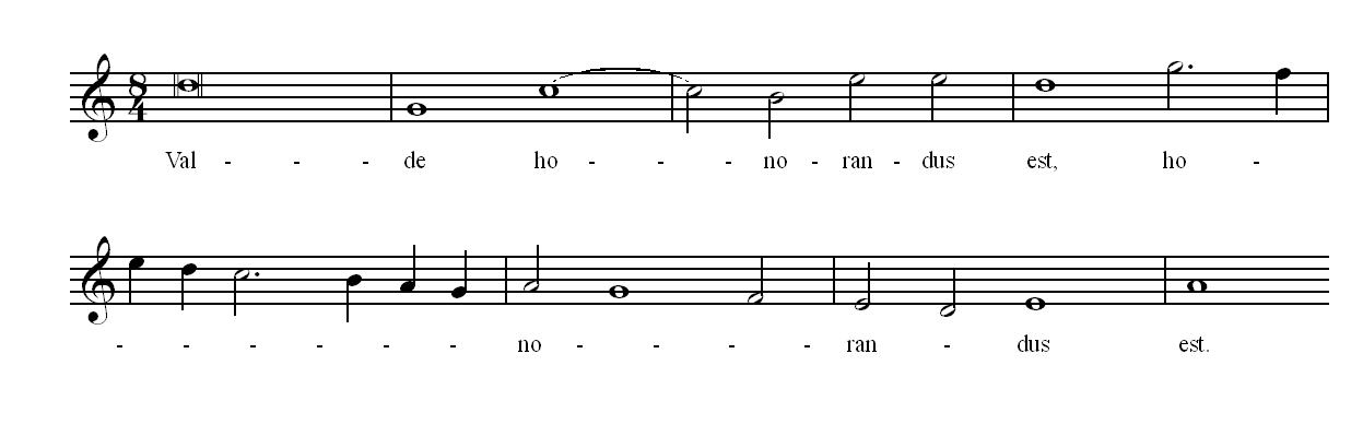 An example of the use of rhythmic crescendo and diminuendo in real music. Incipit of Giovanni Pierluigi da Palestrina's motet "Valde honorandus est".